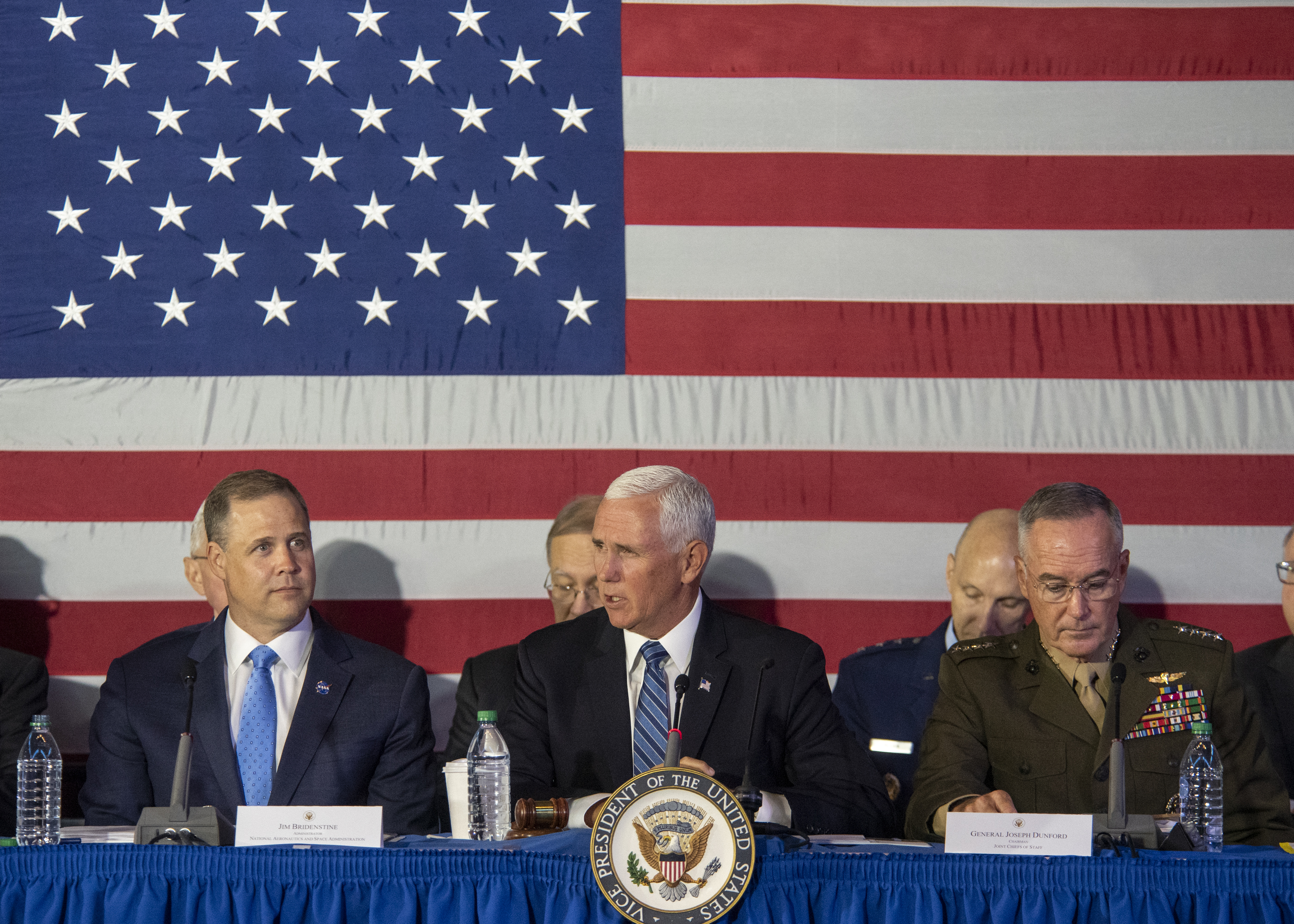 Vice President Mike Pence delivers remarks at the sixth meeting of the National Space Council, Tuesday, Aug. 20, 2019 at the Smithsonian National Air and Space Museum's Steven F. Udvar-Hazy Center in Chantilly, Va. Chaired by the Vice President, the council's role is to advise the President regarding national space policy and strategy, and review the nation's long-range goals for space activities. (DOD photo by U.S. Navy Petty Officer 1st Class Dominique A. Pineiro)